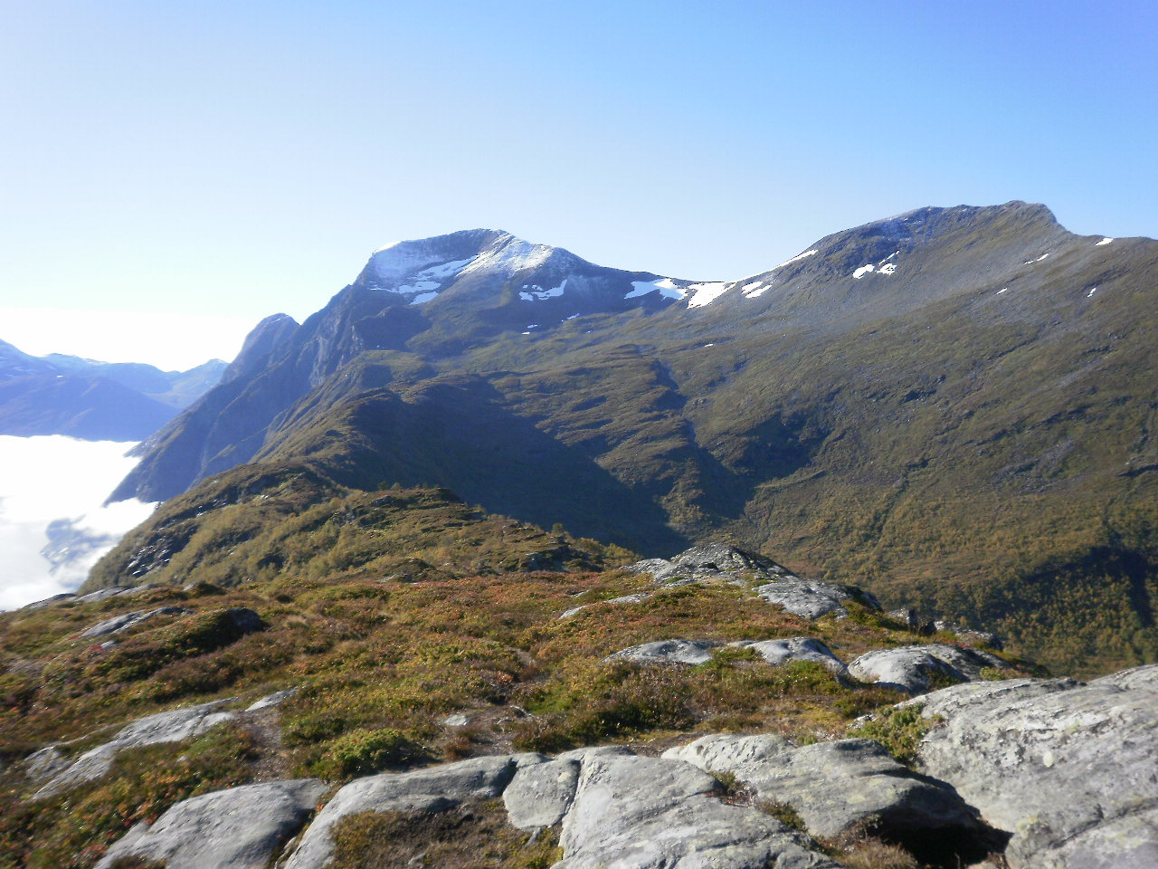 Mountains in Norway